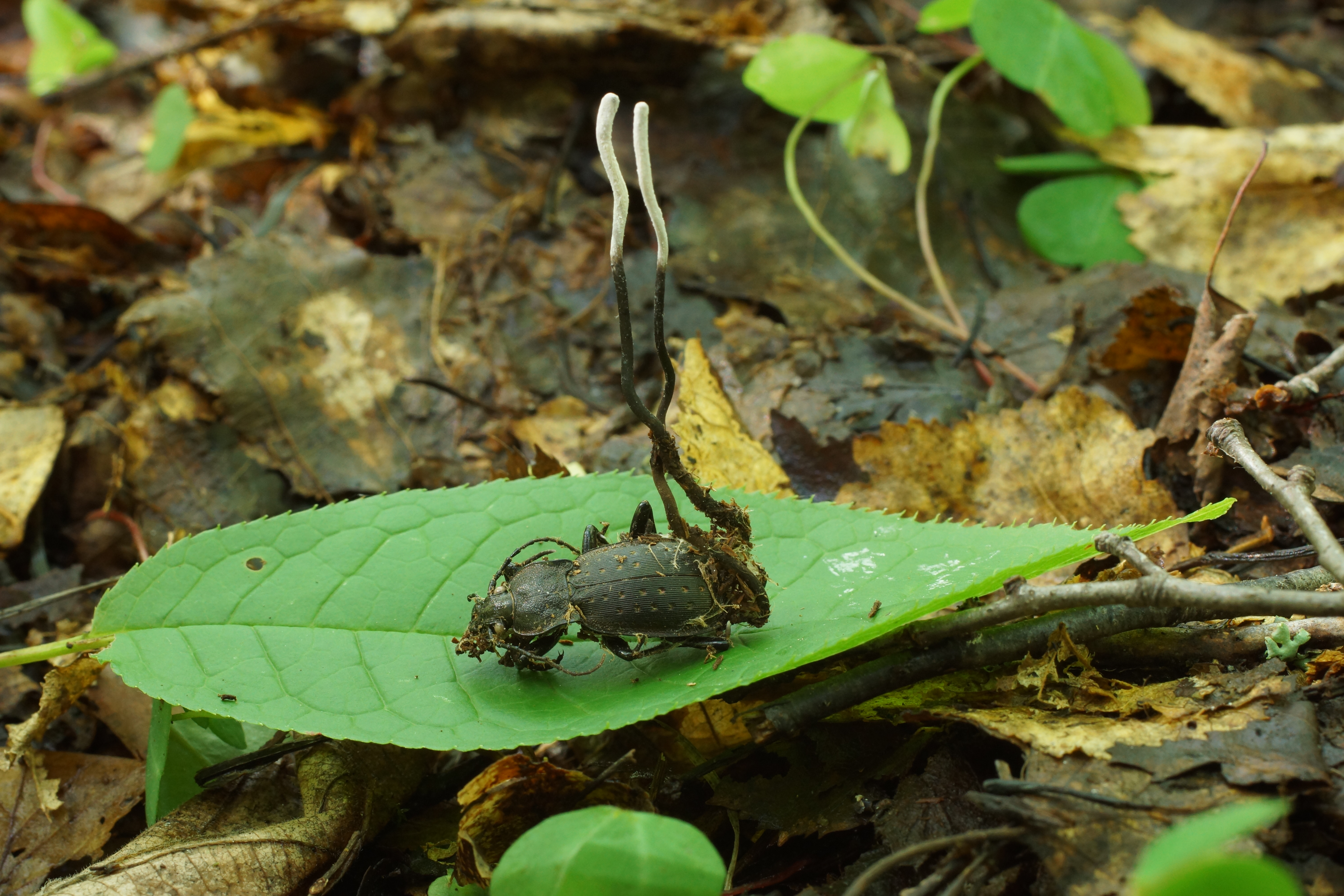 Anamorph, or asexual stage of Ophiocordyceps entomorrhiza.